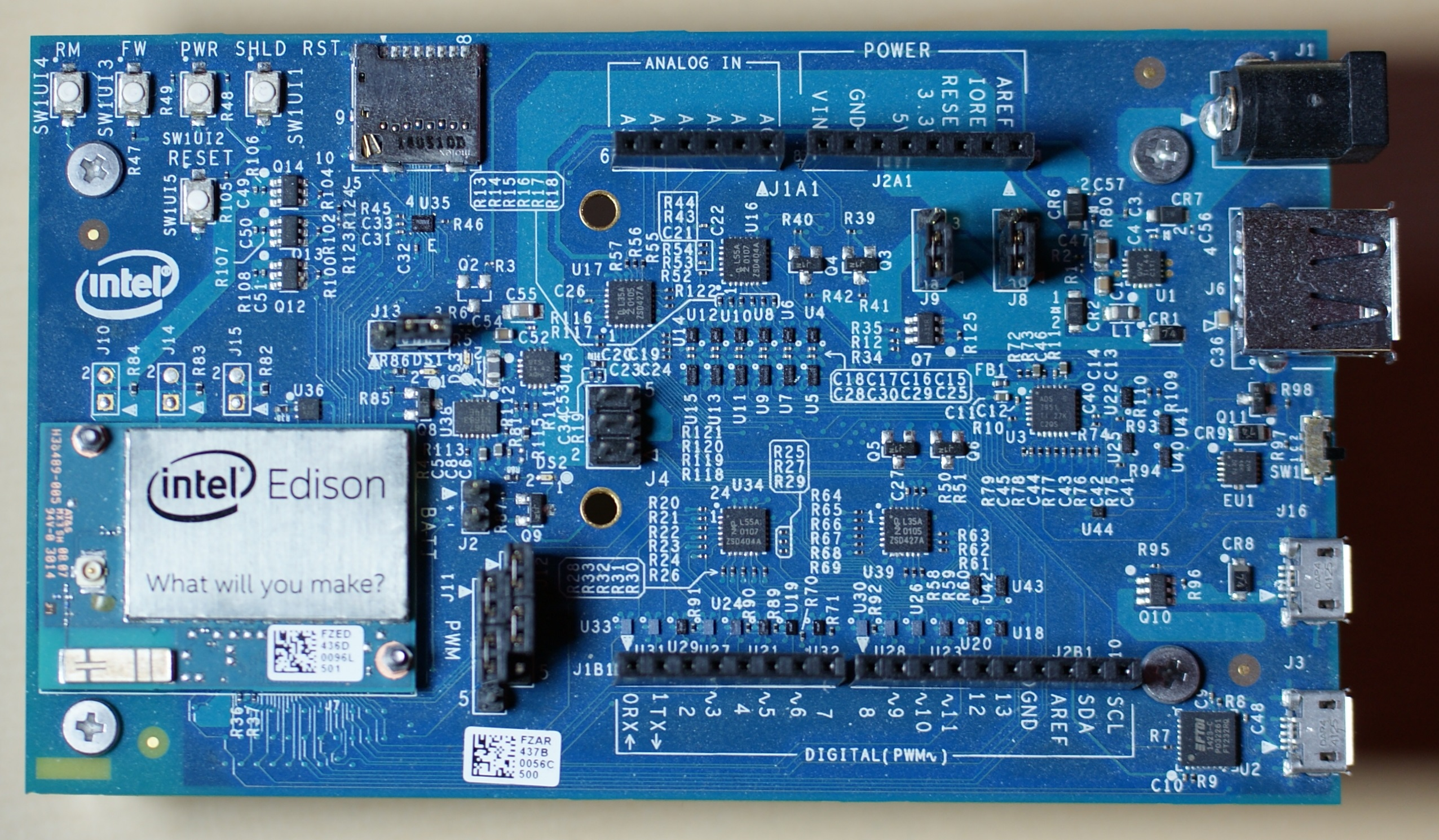 Intel Edison module on Arduino compatible board.